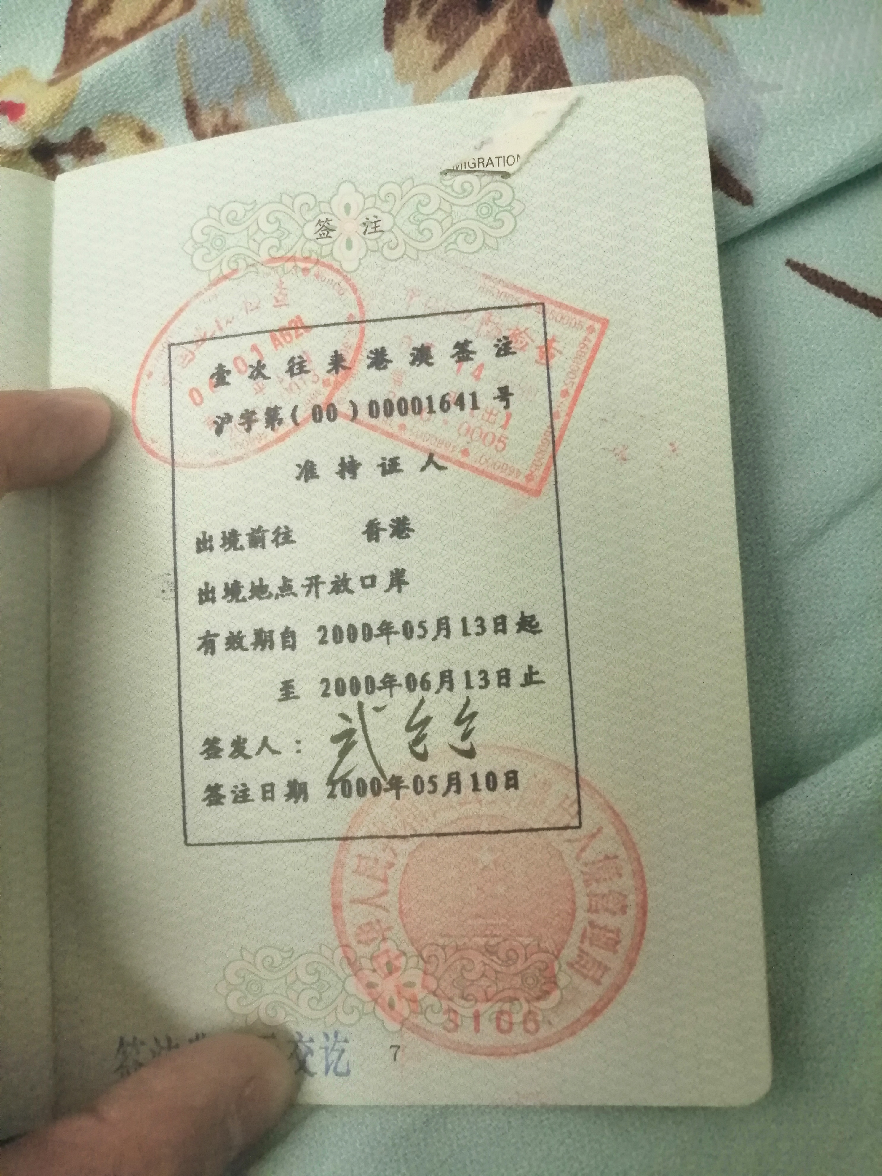 A stamp endorsement on 1983 version Two-way Permit. It is issued on May 10, 2000.